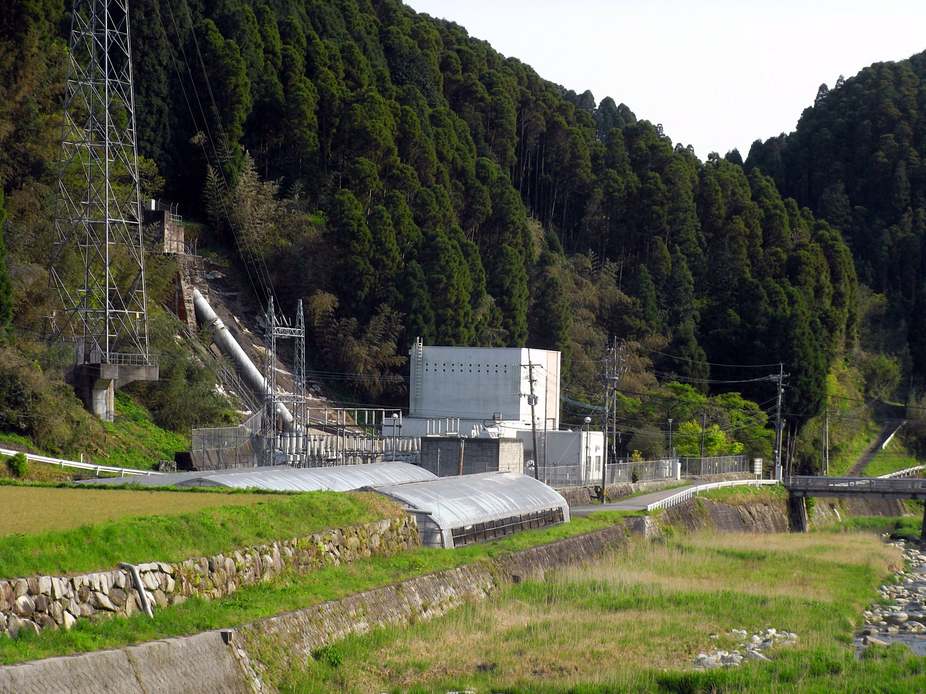 Ozeki power station(Kasegawa river/Saga pref./Japan)